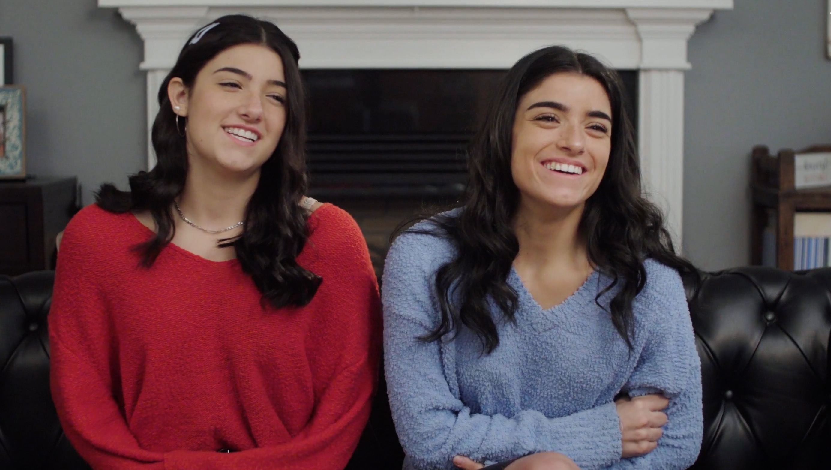 Charli and Dixie D'Amelio on being bullied online - UNICEF - frame grab 1.15